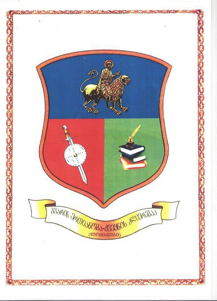 Lomidze Family Crest